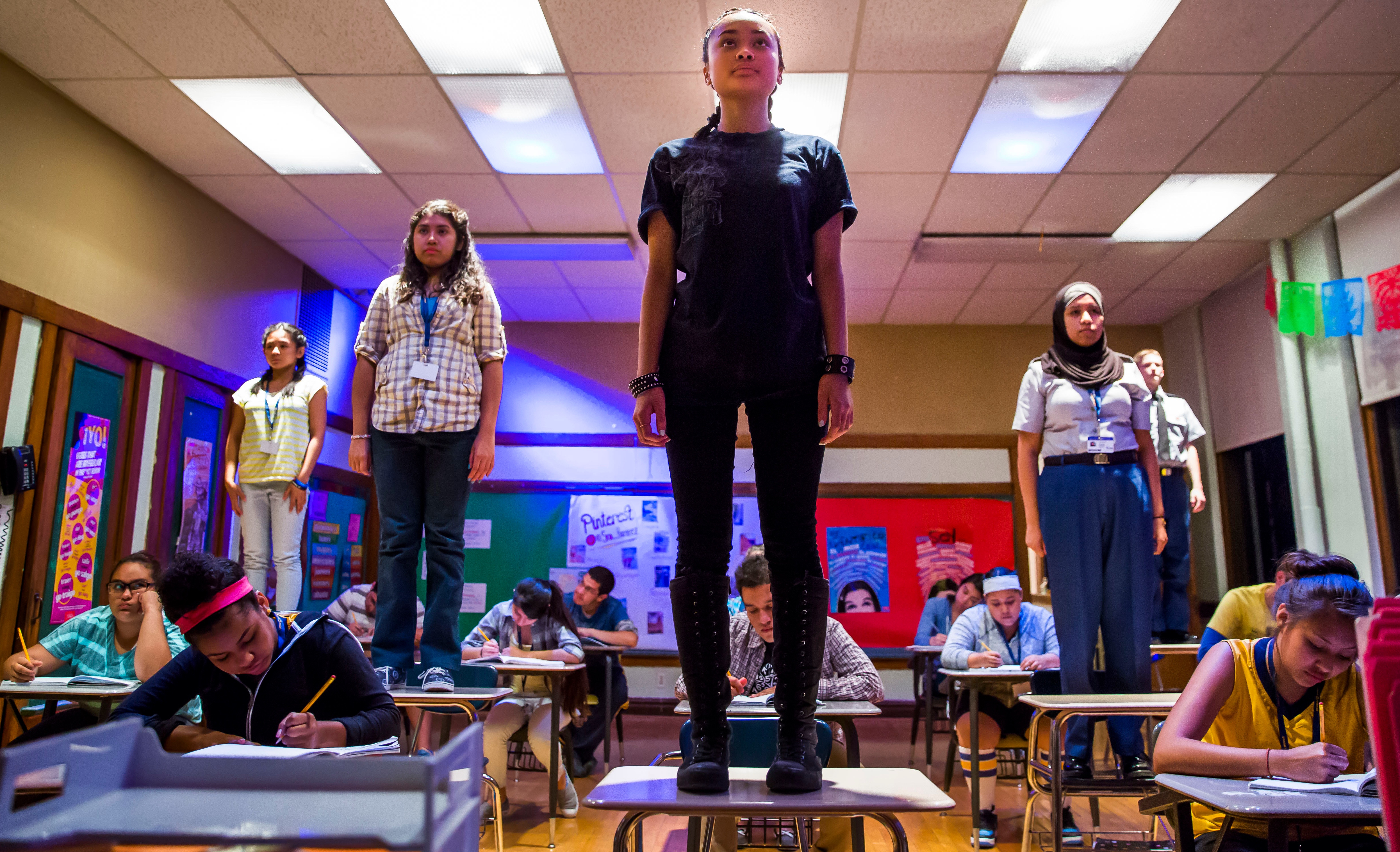 A scene from Learning Curve--Albany Park Theater Project.